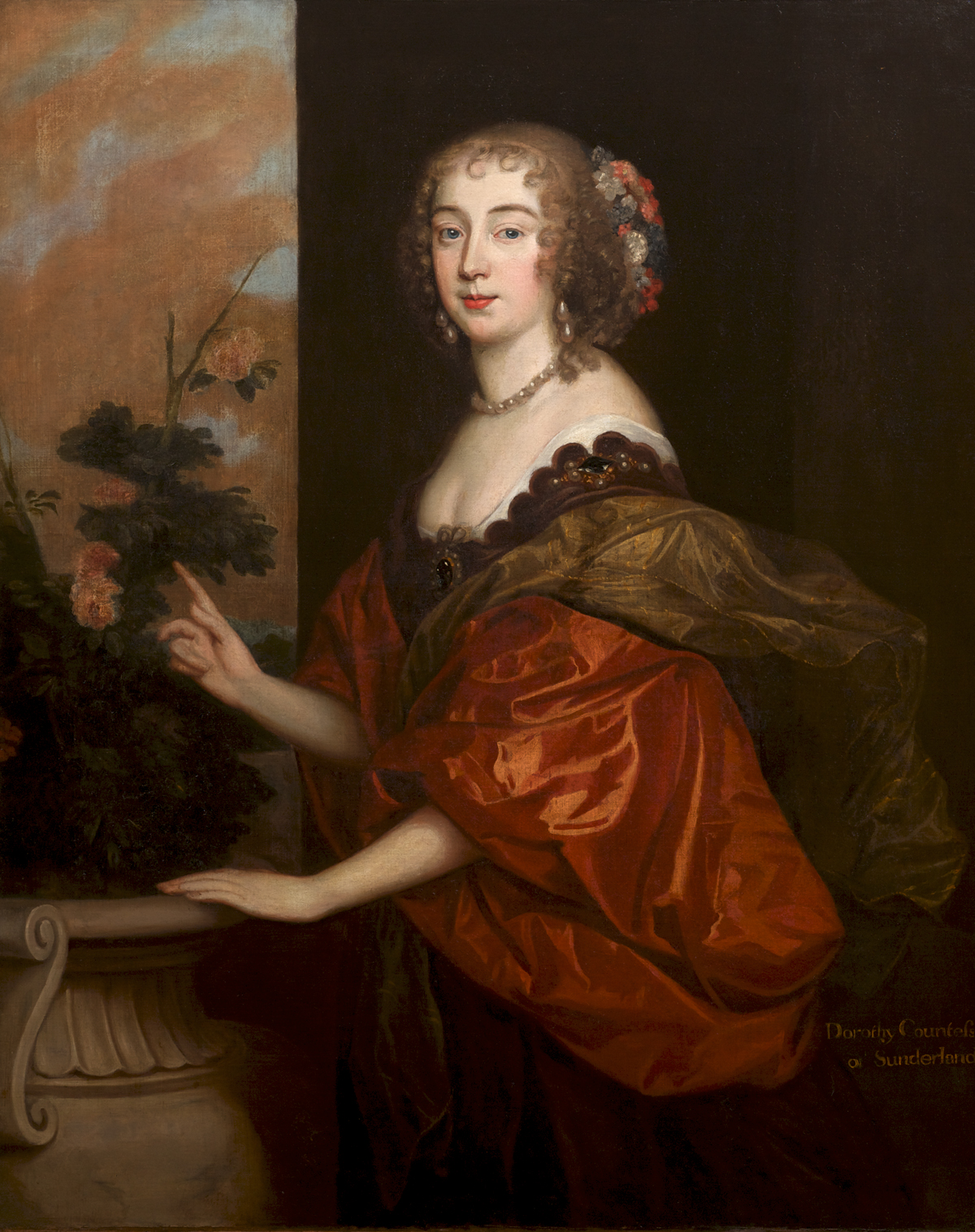 Dorothy Countess of Sunderland